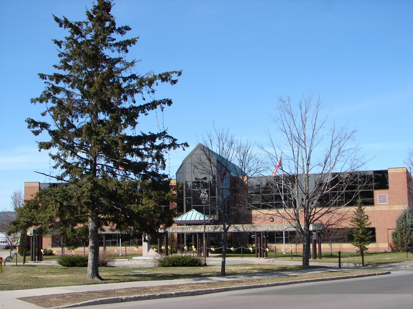 Town Hall of Deep River, Ontario, Canada